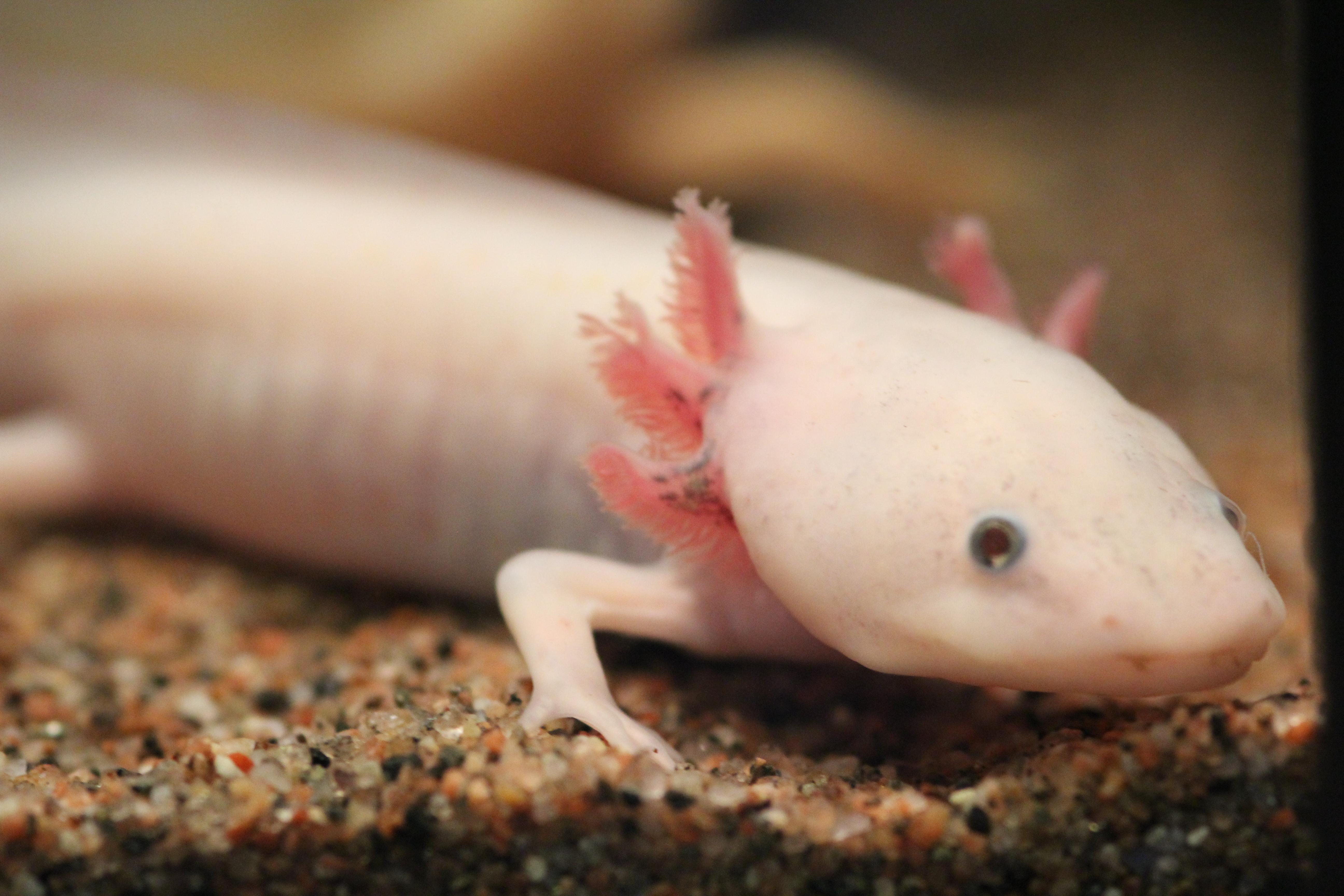 This is a picture of Ambystoma mexicanum (Axolotl). For more pictures visit